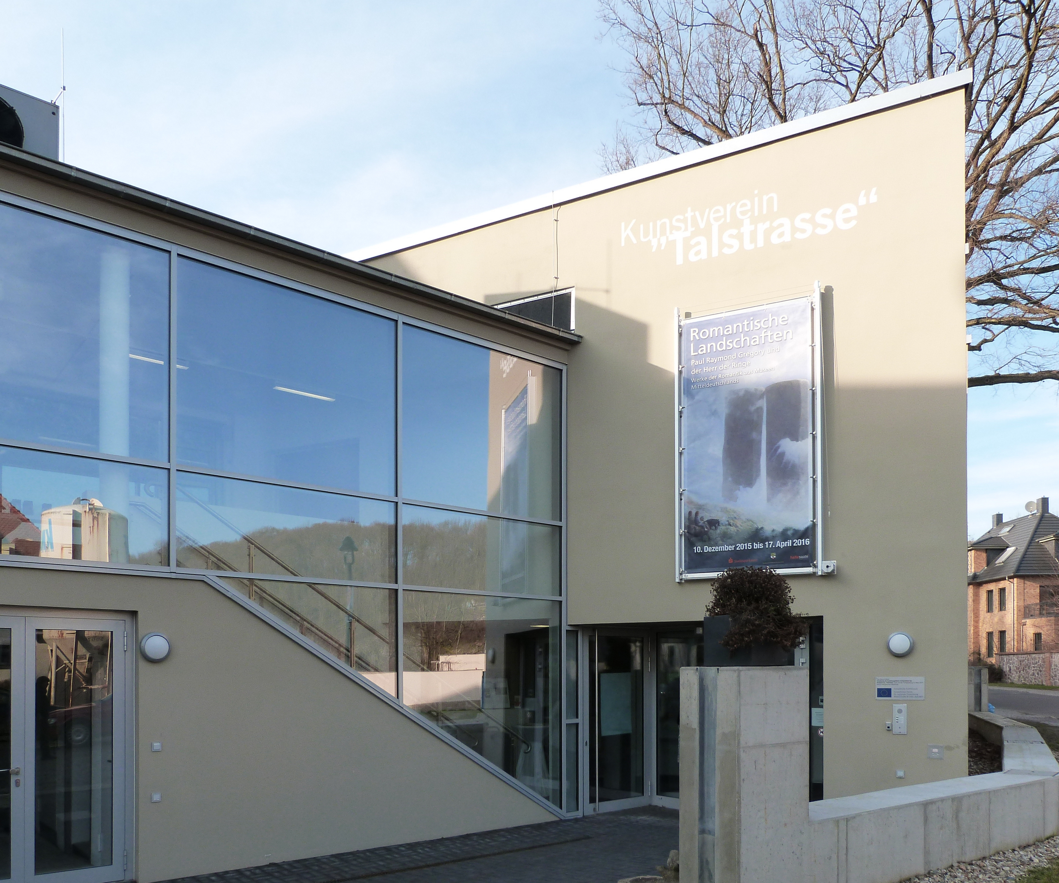 Association of art "Talstrasse" e.V. in Halle (Saale)